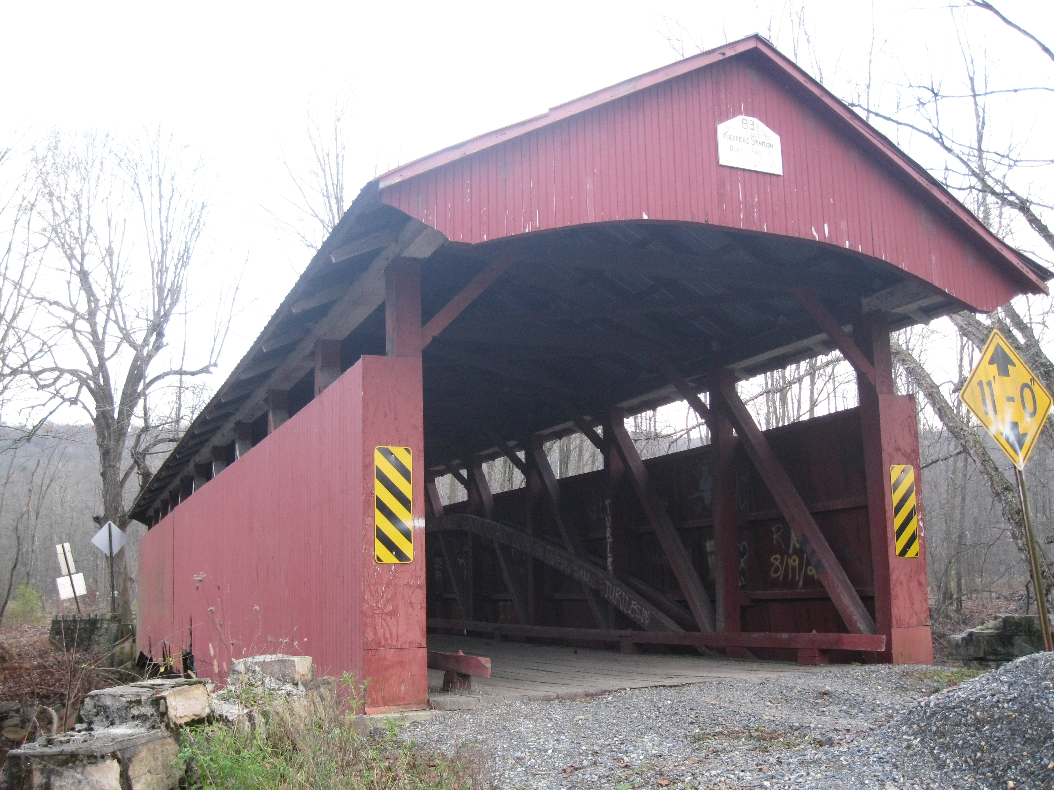 North portal and east wall of Keefer Station Covered Bridge, originally built in 1888 over Shamokin Creek in Upper Augusta Township in Northumberland County, Pennsylvania, USA.